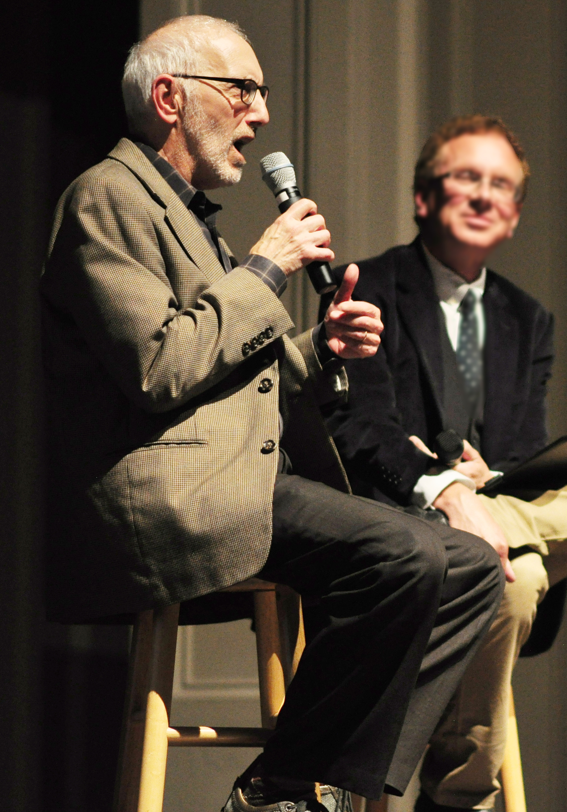 Seattle City Council member Nick Licata (left) at an event for the 150th anniversary of The Nation at Town Hall, Seattle, Washington. John Nichols at right.